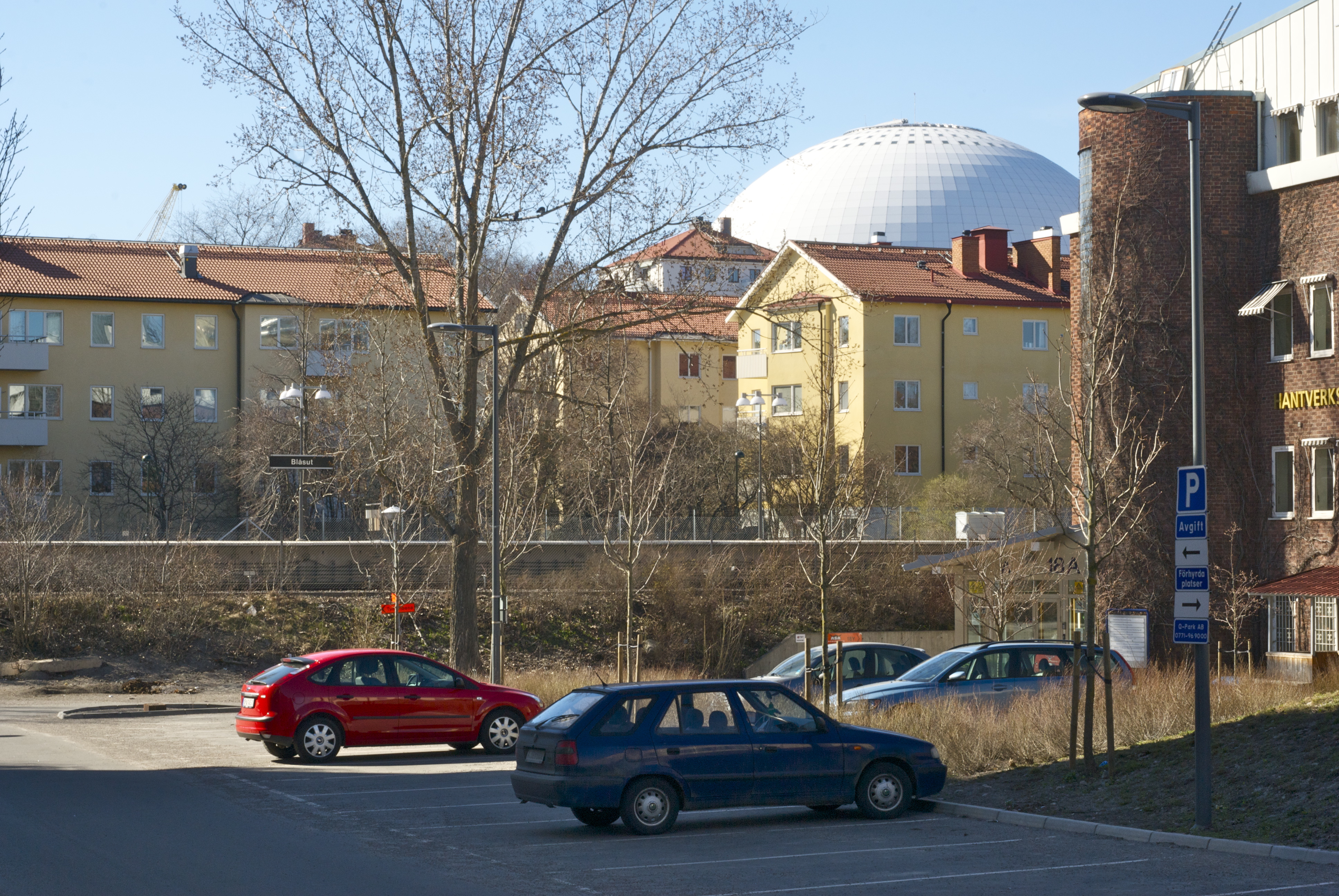 Blåsut in Stockholm.